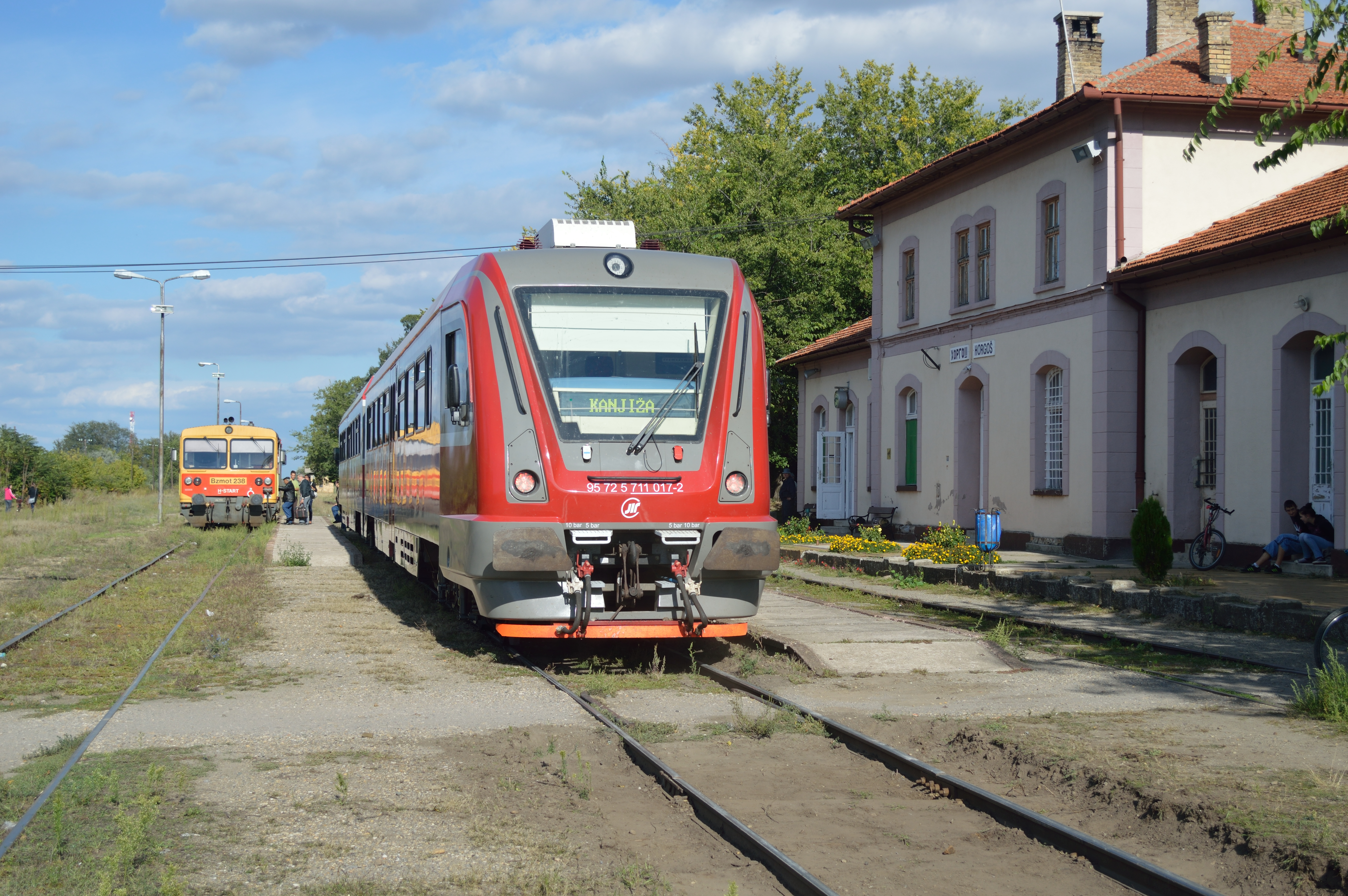 Balkans Rail Trip, Autumn 2013 - Day Two Hungarian and Serbian trains meet at the border station of Horgoš on 24 September 2013. On the left, Hungarian Railways single railcar Bzmot 238 is just filling up with passengers and will form train 30706, 15:42 Horgoš to Szeged. To the right, newly built 2-car DMU has just arrived on train 7486, 14:35 Subotica to Kanjiža and will reverse before continuing on.